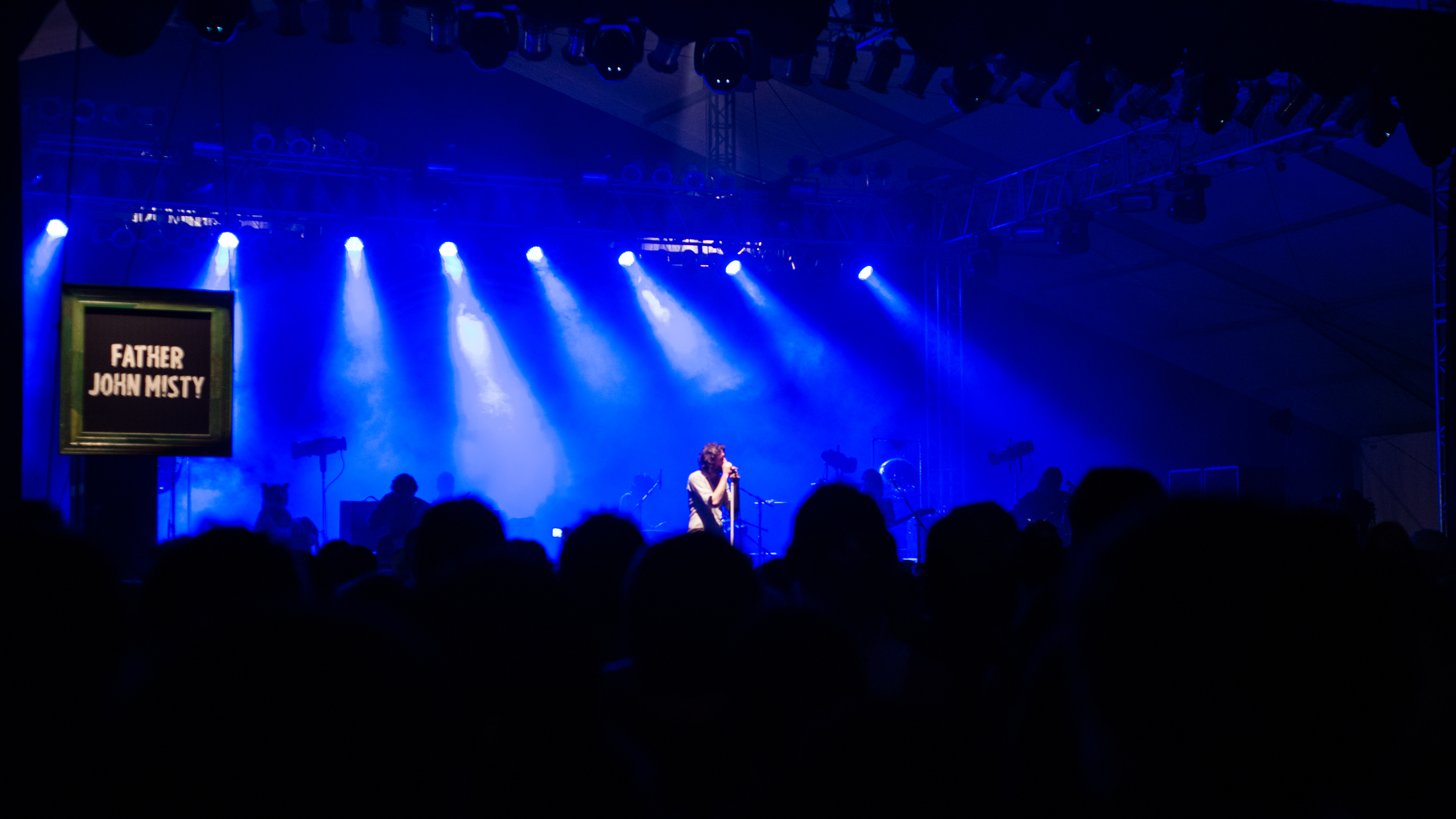 Father John Misty performing at Bonnaroo 2013